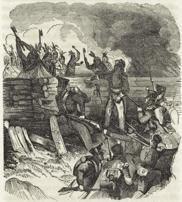 Battle Horseshoe Bend (Tohopeka), Creek War, present-day southern Alabama, 1814